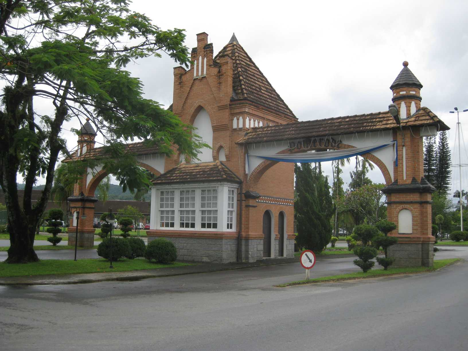 Pomerode, Bazil: North Gate (Porto do Imigrante Wolfgang Weege)